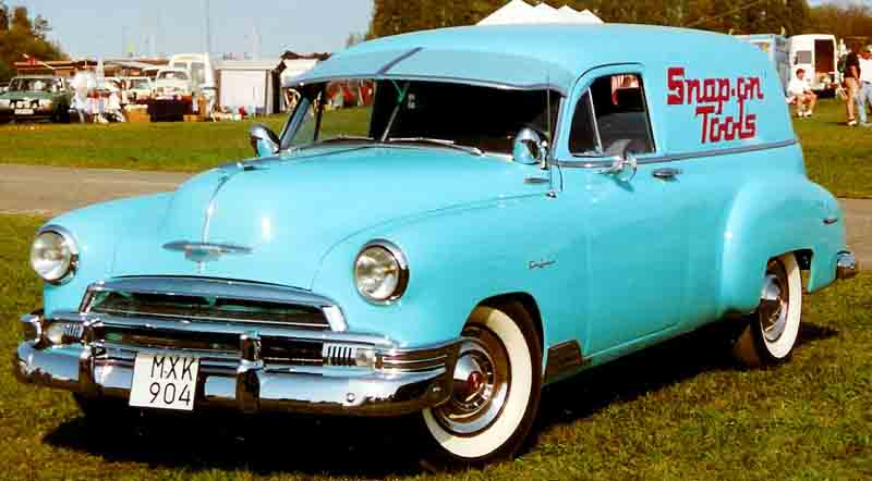 1951 Chevrolet Special Series 1500JJ, Sub-Series Styleline, Model 15XX Delivery Van